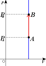 P-V diagram of isochoric process